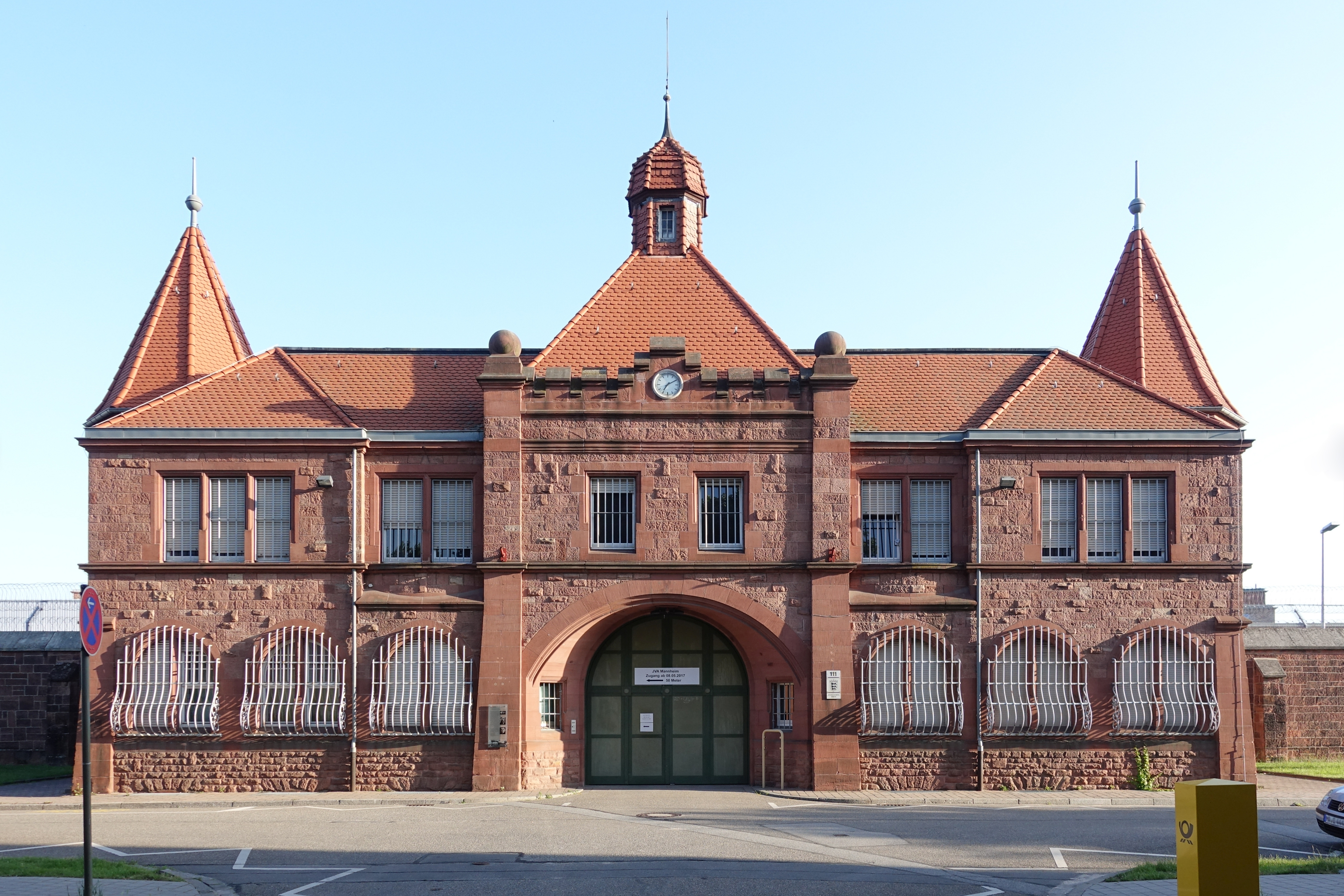 Mannheim (Germany) prison, former main gate